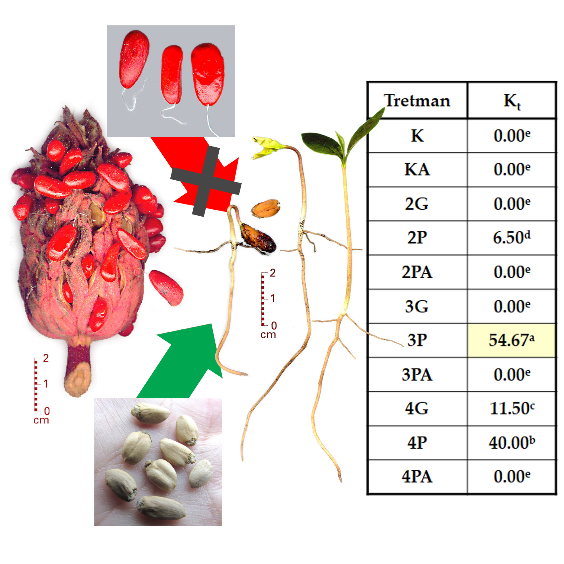 Magnolia grandiflora Dormancy-breaking treatments